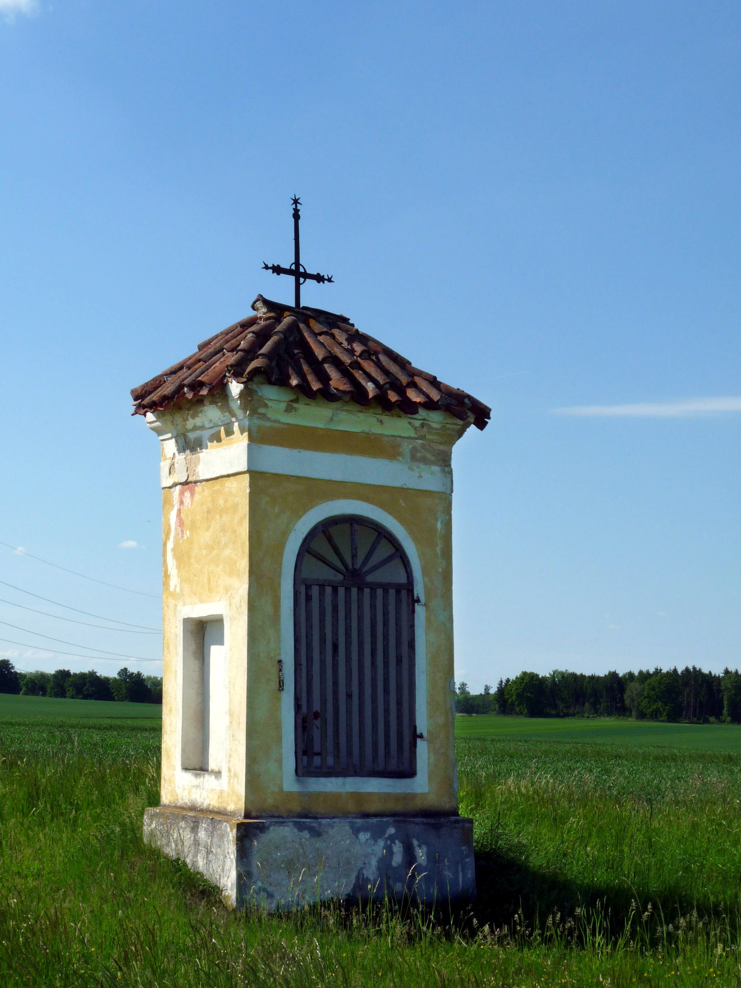 Wayside shrine of Saint John of Nepomuk at house No 53 in the village of Hlavatce, České Budějovice District, South Bohemian Region, Czech Republic.